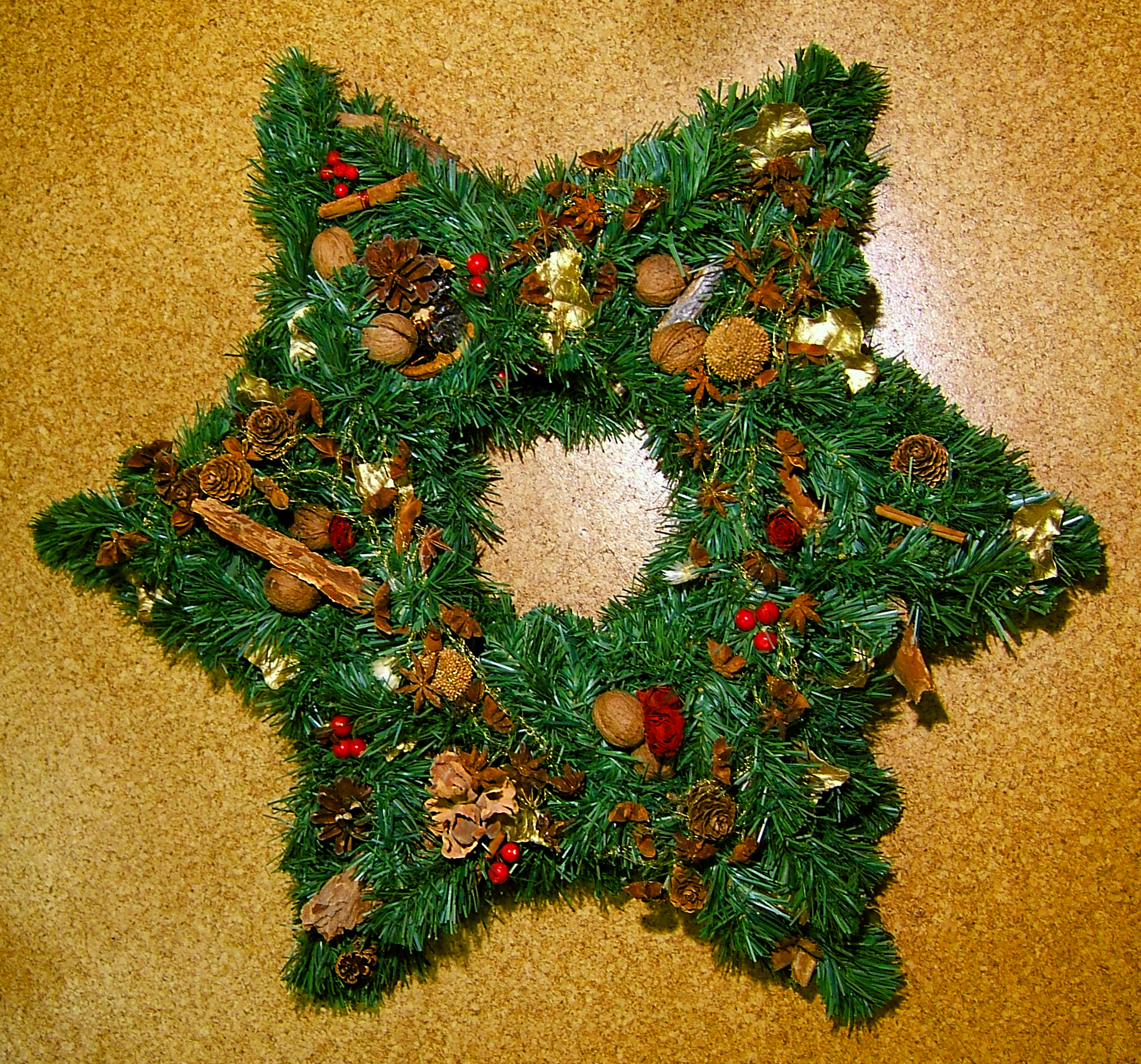 Advent star